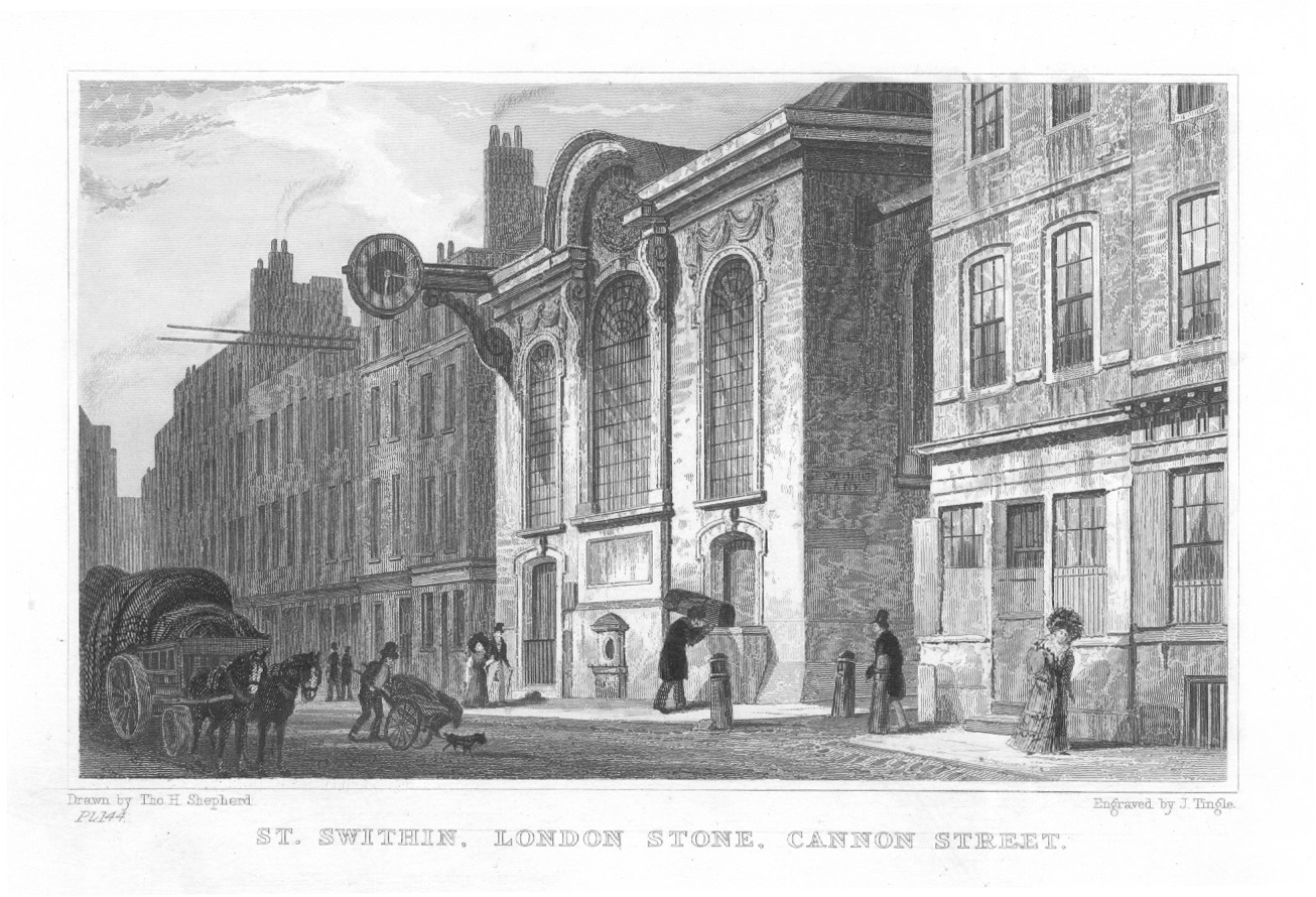 Church of St Swithin, London Stone, in Cannon Street, London; engraving after Thomas H. Shepherd, 1831. The church is by Christopher Wren, 1678. A prominent stone casing in the middle of the church's south wall houses London Stone.